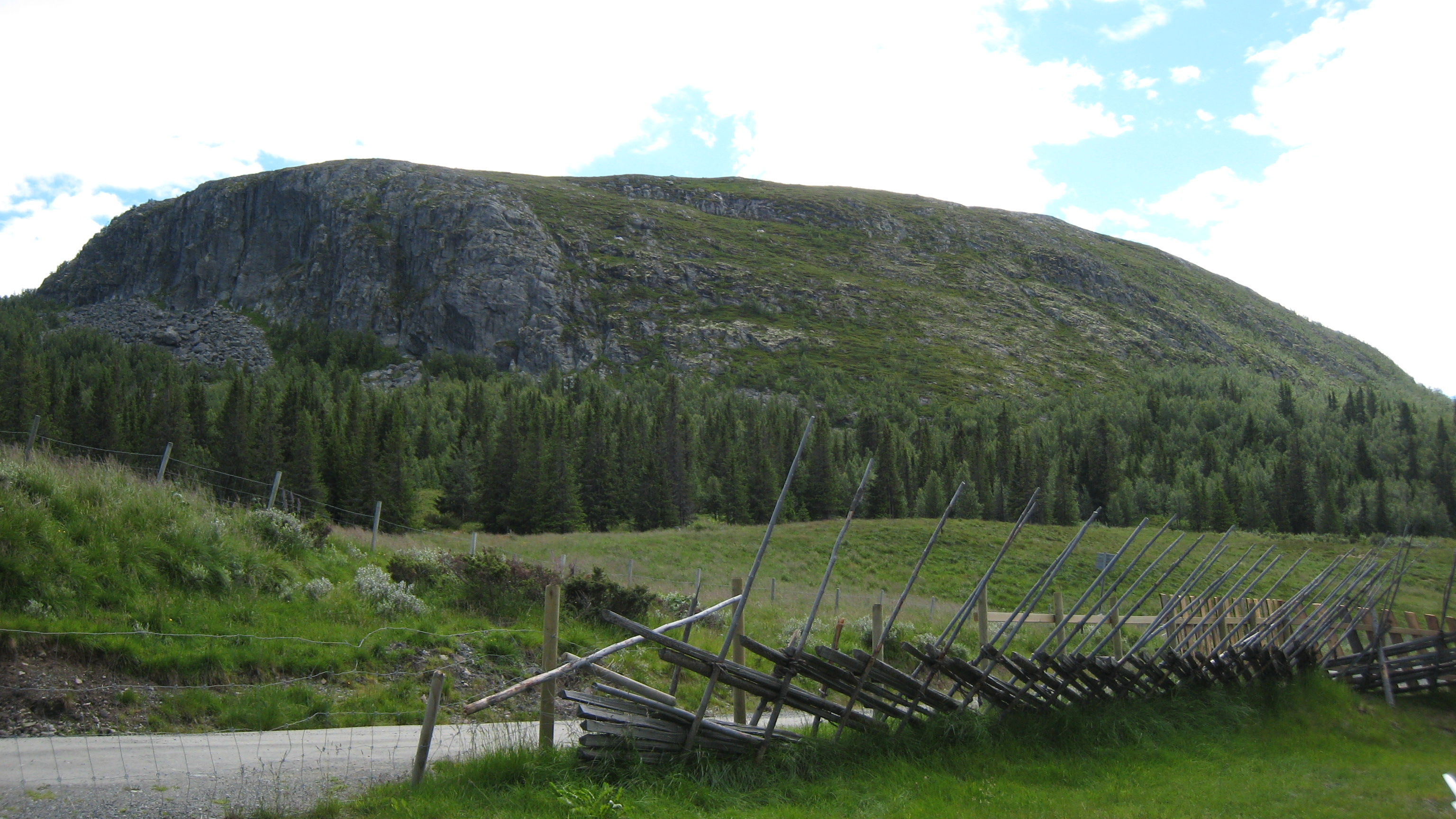 Photo of Rabalsmellen in Øystre Slidre, Valdres, Norway